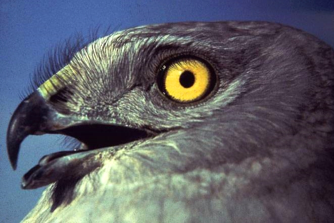 Male Northern Harrier (Circus hudsonius)